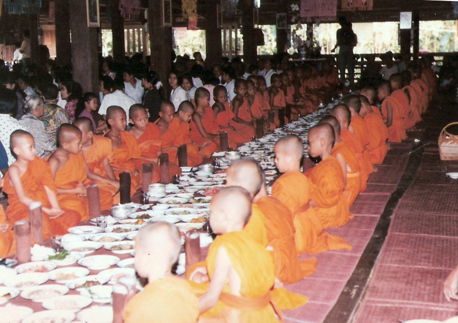 Novice monks, Thailand, Uttaradit, 1998. Own work